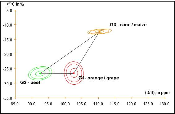 Figure 9 - Adulteration triangle: repartition of isotopic ratios on ethanol molecules